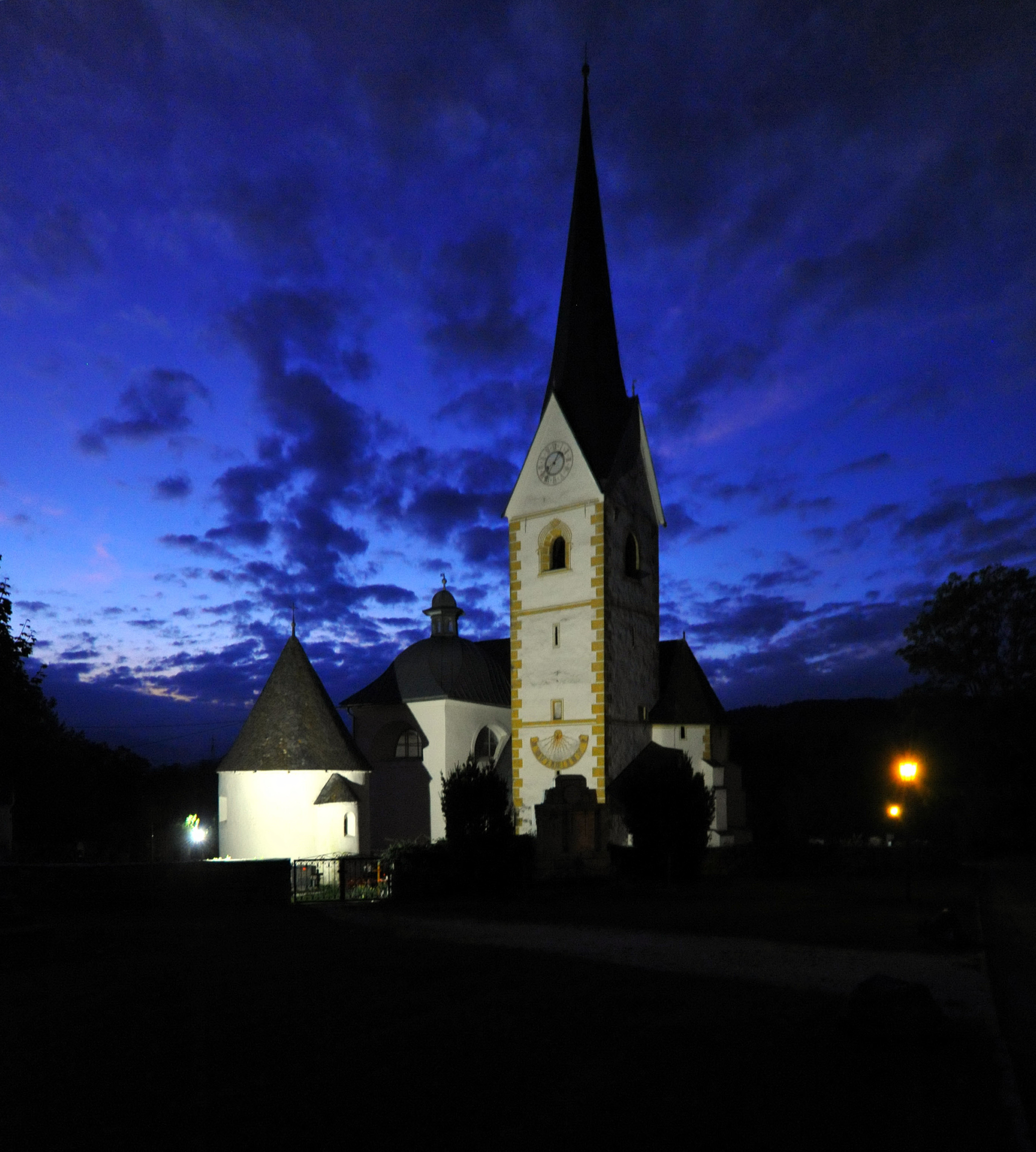 Parish church Holy Egyd at Tigring in the municipality Moosburg, district Klagenfurt-Land, Carinthia, Austria